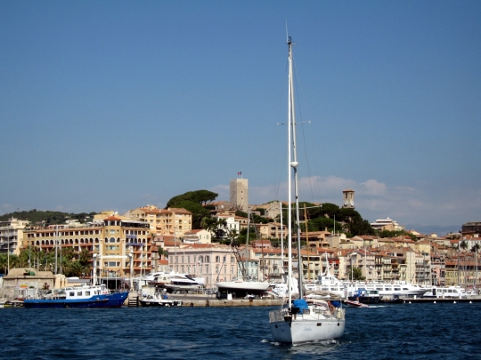 Cannes, France